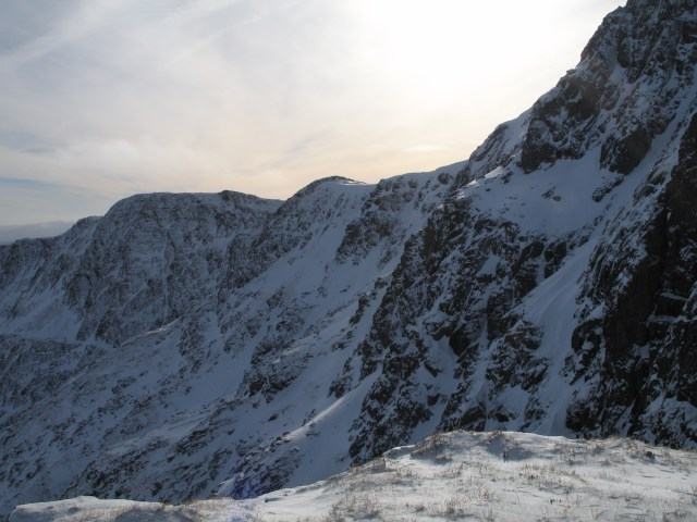 An Aghaidh Gharbh. An Aghaidh Gharbh, The Rough Face, of Aonach Beag. The photograph was taken a short way off the North-East ridge